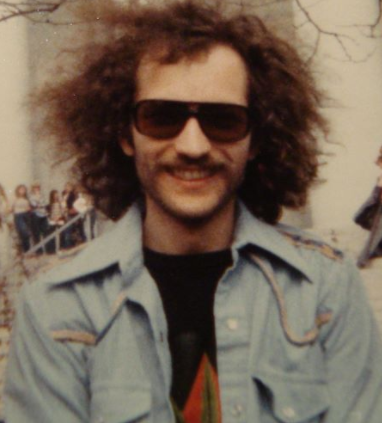 Steve Conliff at the Ohio State House during his campaign for Governor of Ohio.